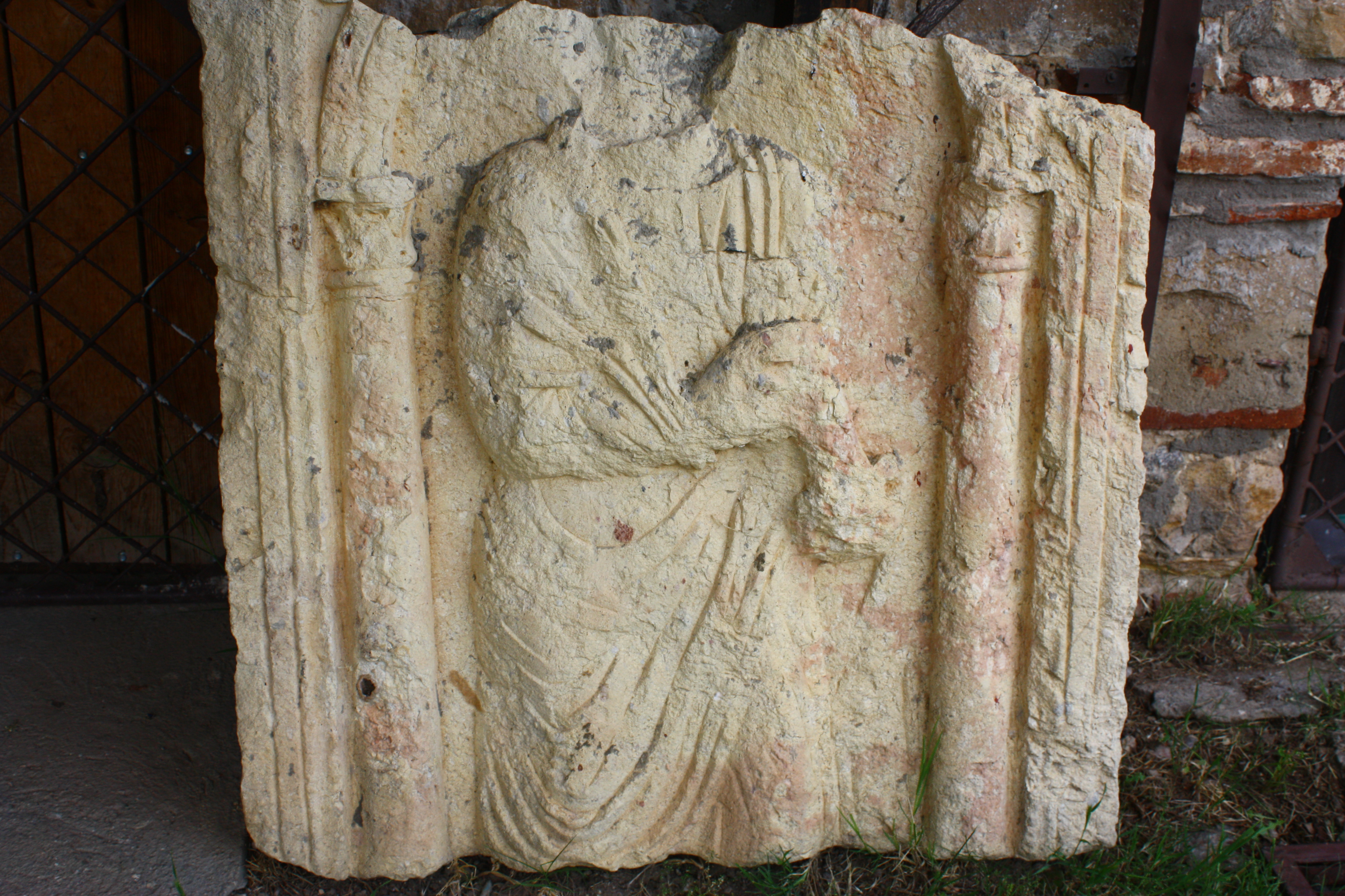 St. George's Church near village of Kozjak, Štip, Macedonia